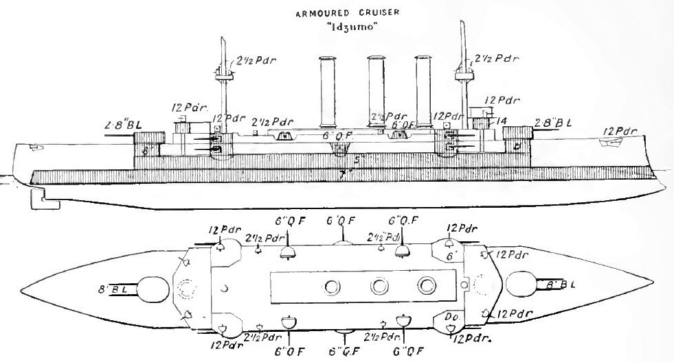 Sketch of the Japanese armoured cruiser Izumo class.